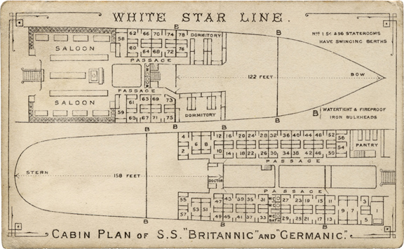 Reverse side of 2x4 inch carte de visite of the White Star Mail Steam Ships Britannic and Germanic depicting their common deck plan.